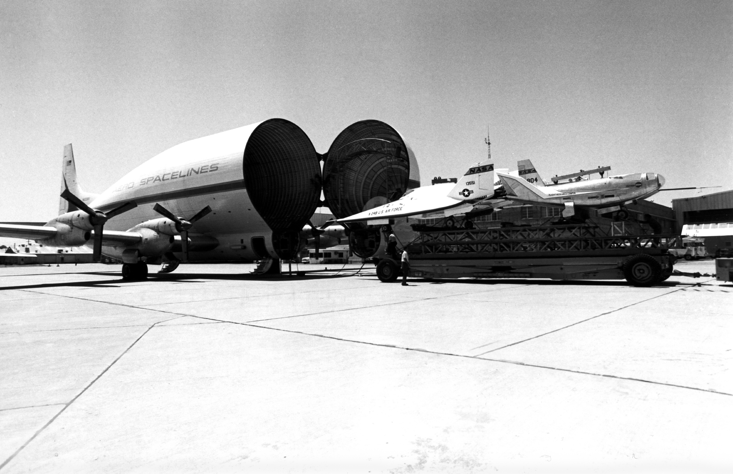 The Aero Spacelines B377SG Super Guppy was at Dryden in May 1976 to ferry the X-24 and HL-10 lifting bodies from the Center to the Air Force Museum at Wright-Patterson Air Force Base, Ohio.